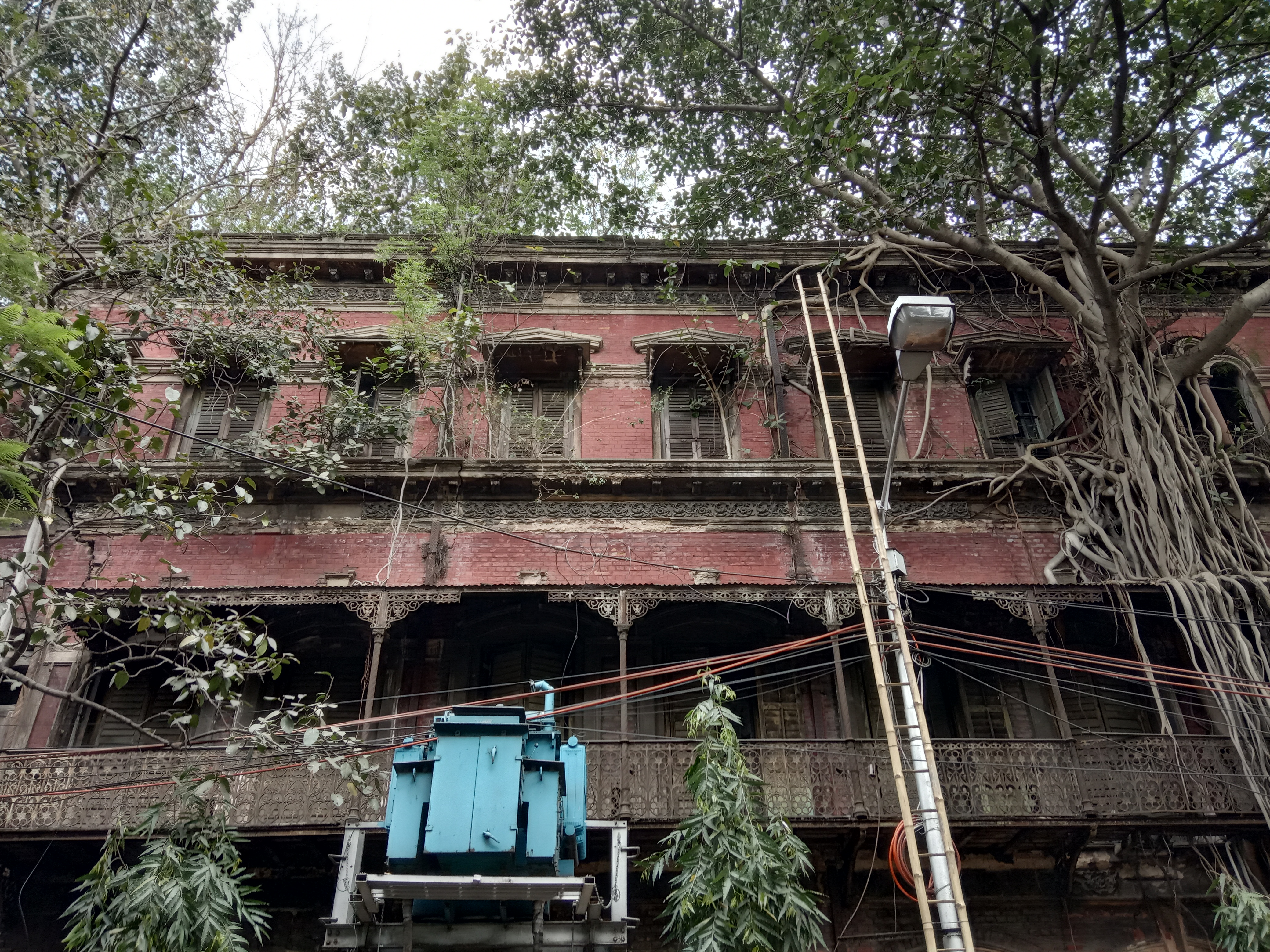 This is the front view of the house of Raja Subodh Chandra Mallik, a great Indian nationalist of Bengal. This house is situated beside Wellington Square ( Raja Subodh Mallik) Square in Kolkata.